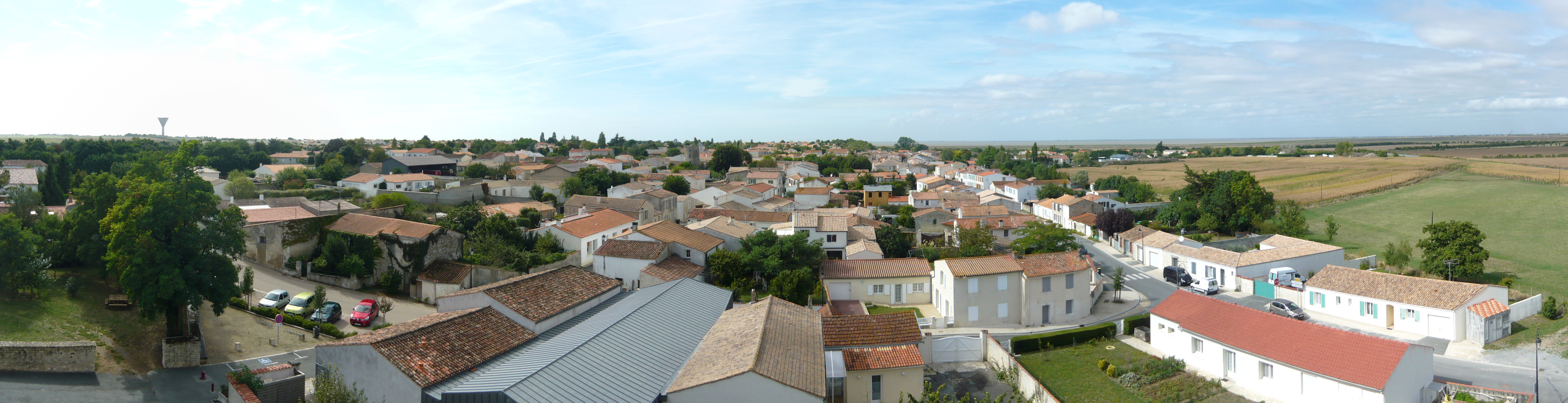 Panorama of Esnandes (Charente-Maritime, France) seen from St. Martin church.